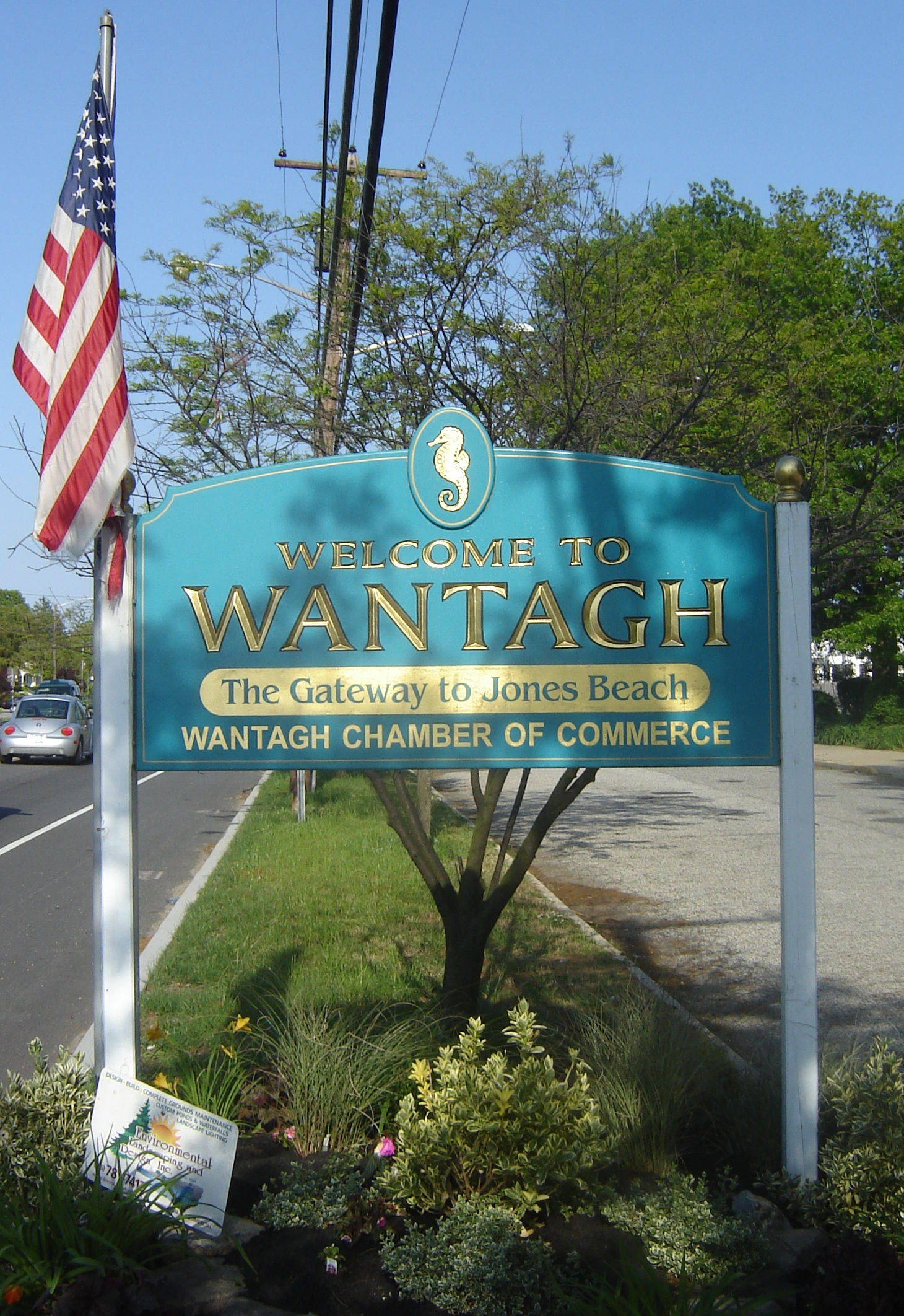 Welcome to Wantagh sign on Jerusalem Avenue.